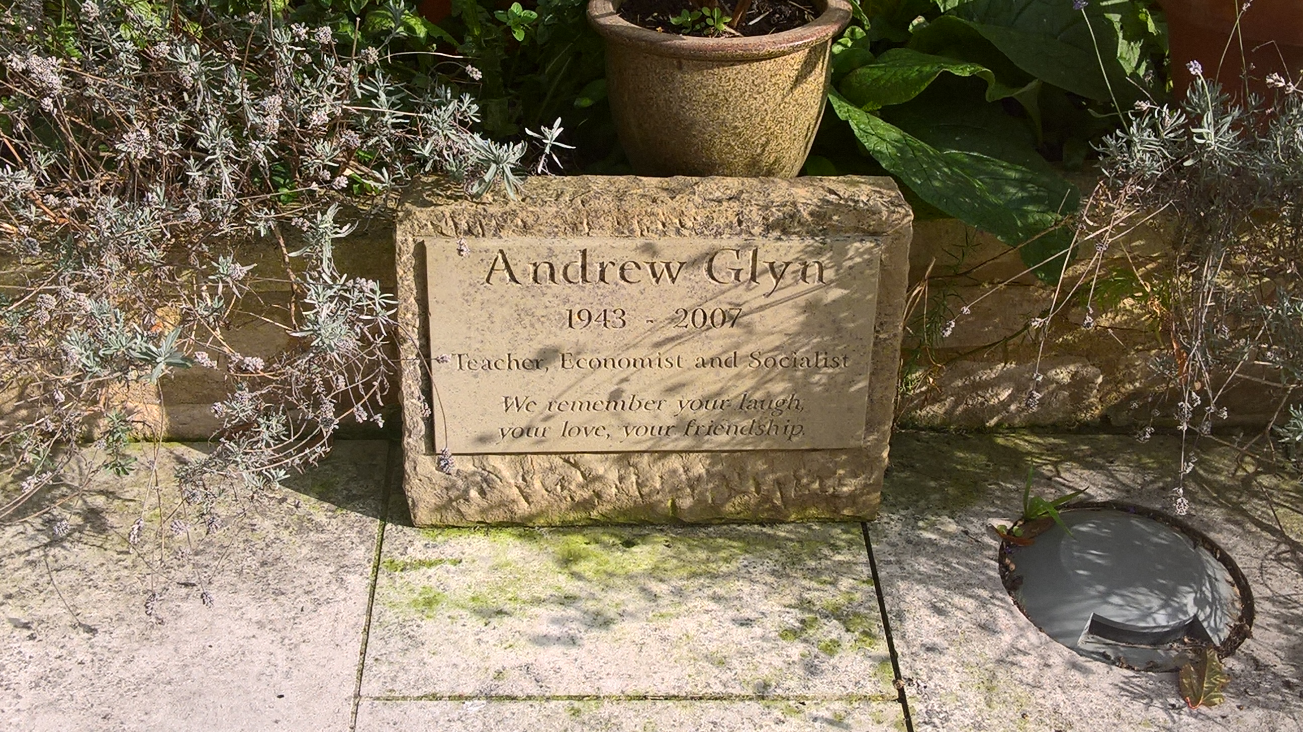 Andrew Glyn's memorial stone at Corpus Christi College, Oxford.